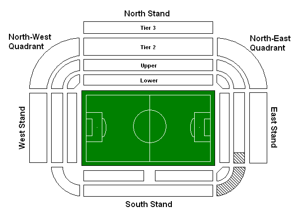 "I created this myself in Microsoft Paint on 20 January 2008, specifically for use in the Old Trafford article. The West stand is better known as The Stretford End."